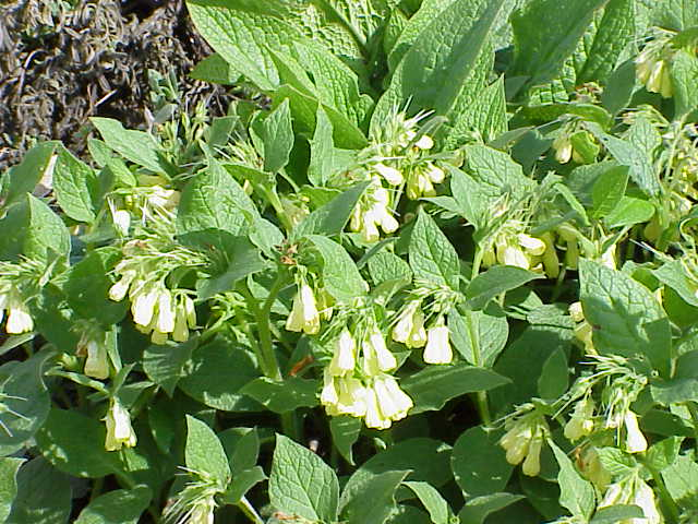 Species: Symphytum tuberosum Family: Boraginaceae Image No. 3